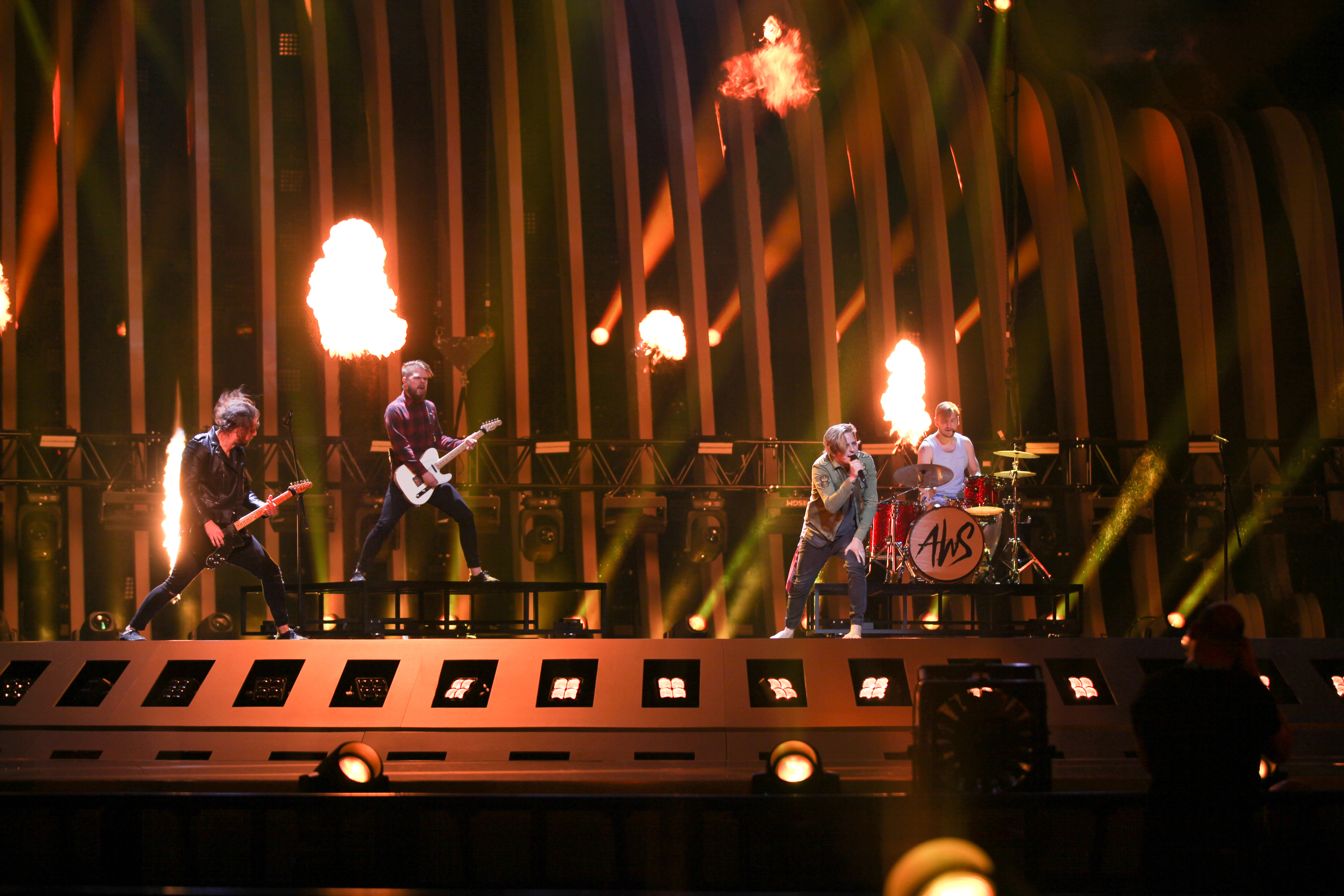 AWS representing Hungary with the song "Viszlát nyár" during a rehearsal before the second semi final of the Eurovision Song Contest 2018 in Lisbon.